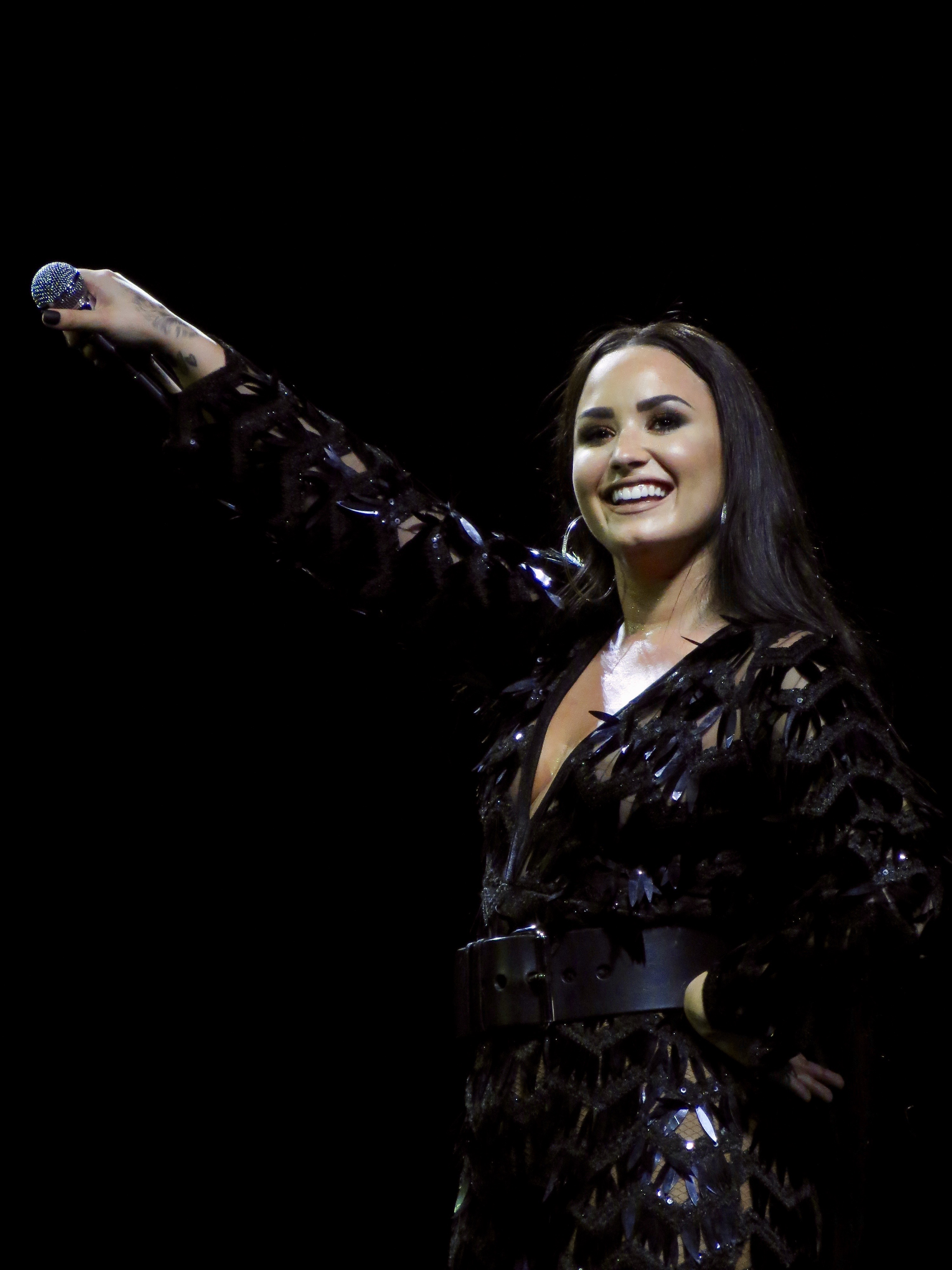 Demi Lovato at Tell Me You Love Tour in Glasgow